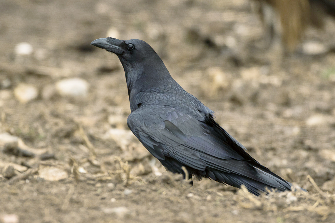 Common Raven - Catalan Pyrenees - Spain_MG_4250